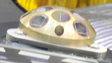 Image of the LaRRI (Laser RetroReflector for InSight) instrument installed on the InSight Mars lander.